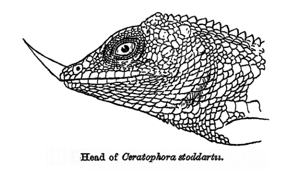 Head of Ceratophora stoddarti